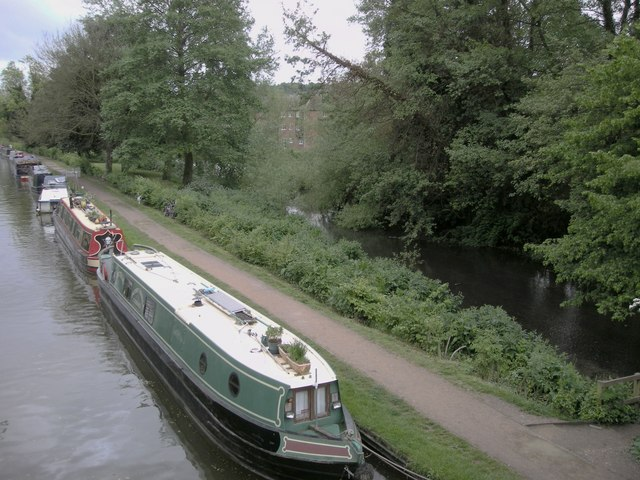 Berkhamsted-Grand Union Canal Moored Narrowboats with the towpath separating the canal from the River Bulbourne.